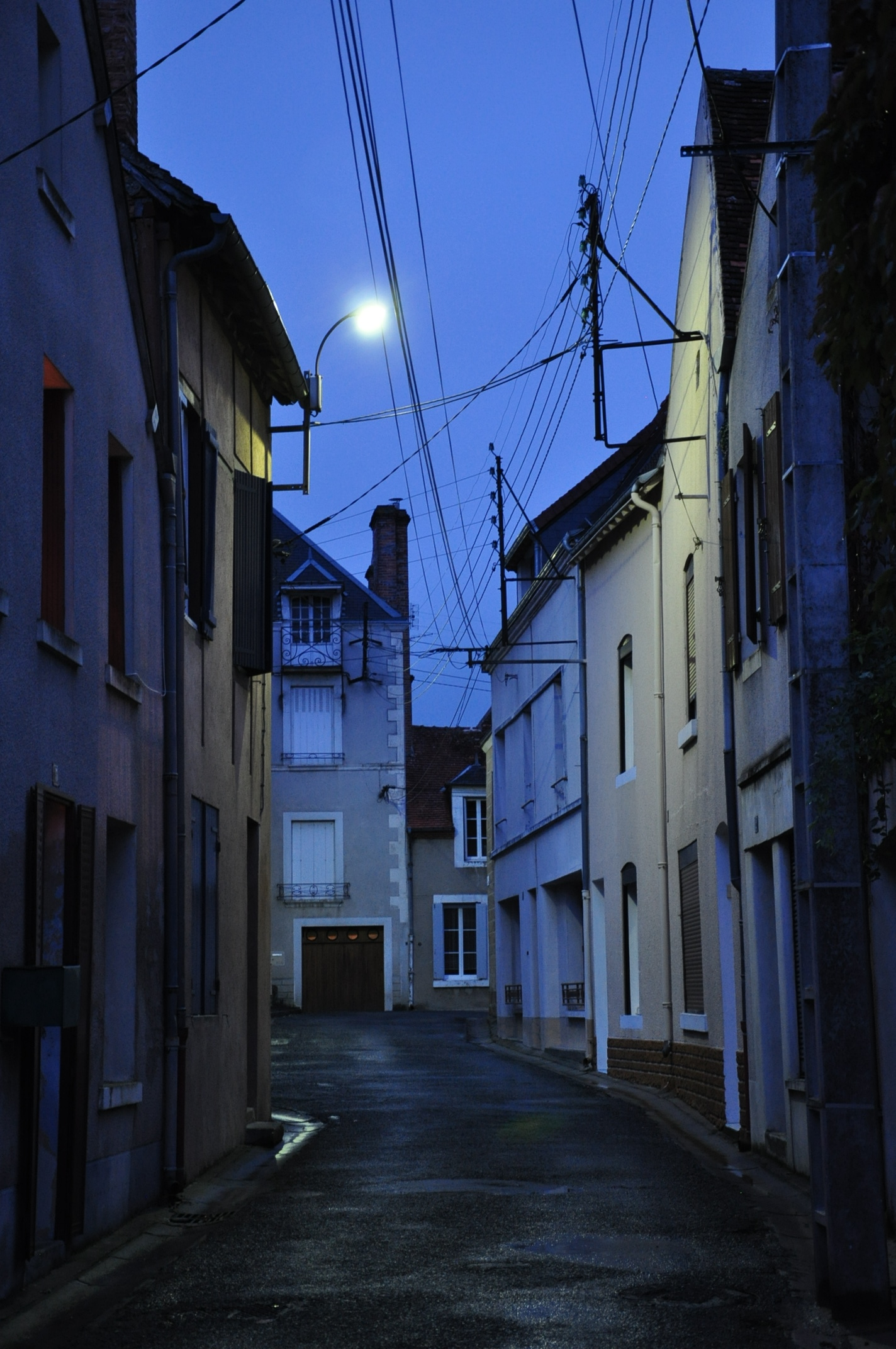 Rue Saint-Sulpice (St. Sulpice Street) in Vatan (Indre, France).